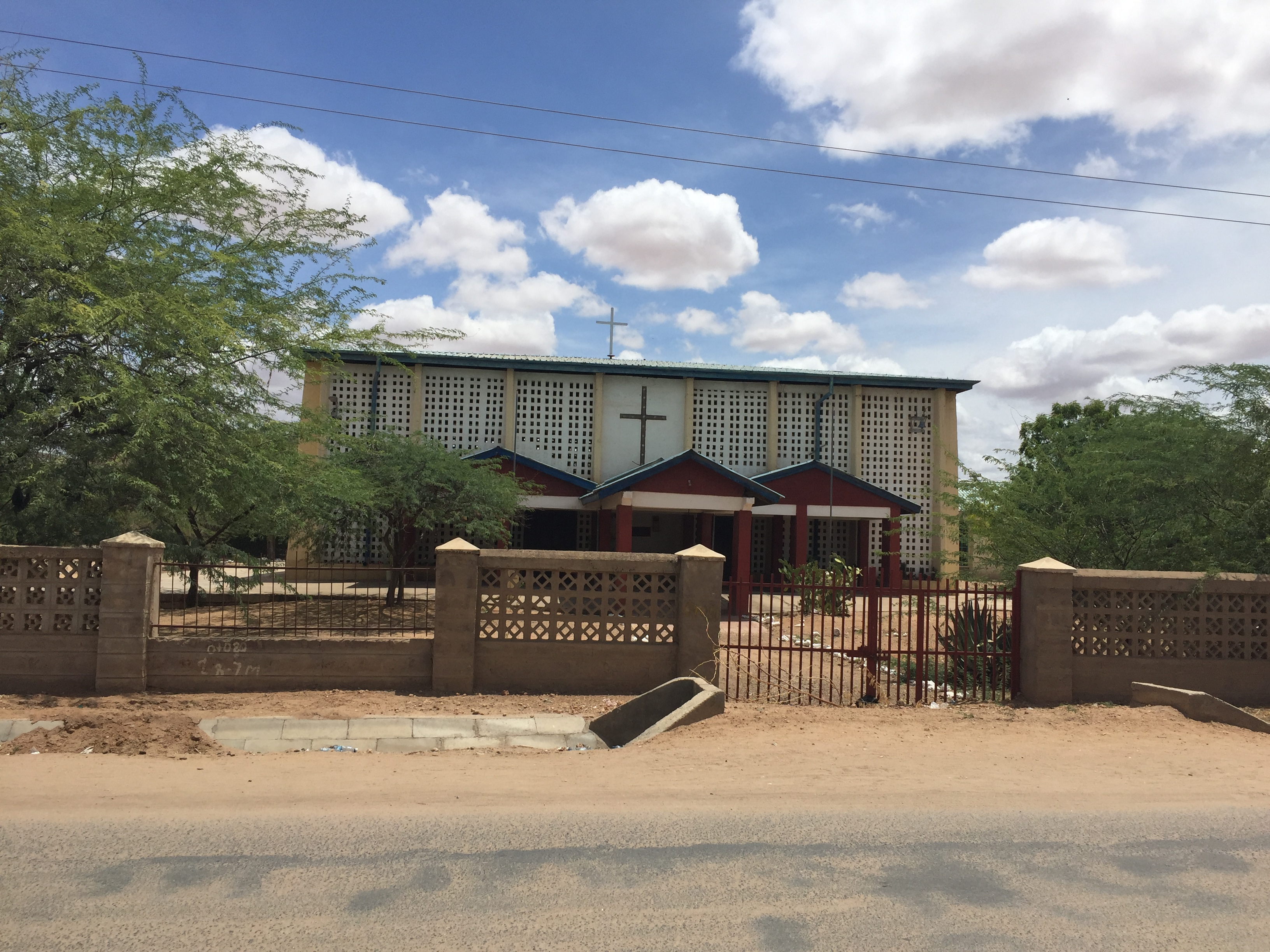 Garissa Church